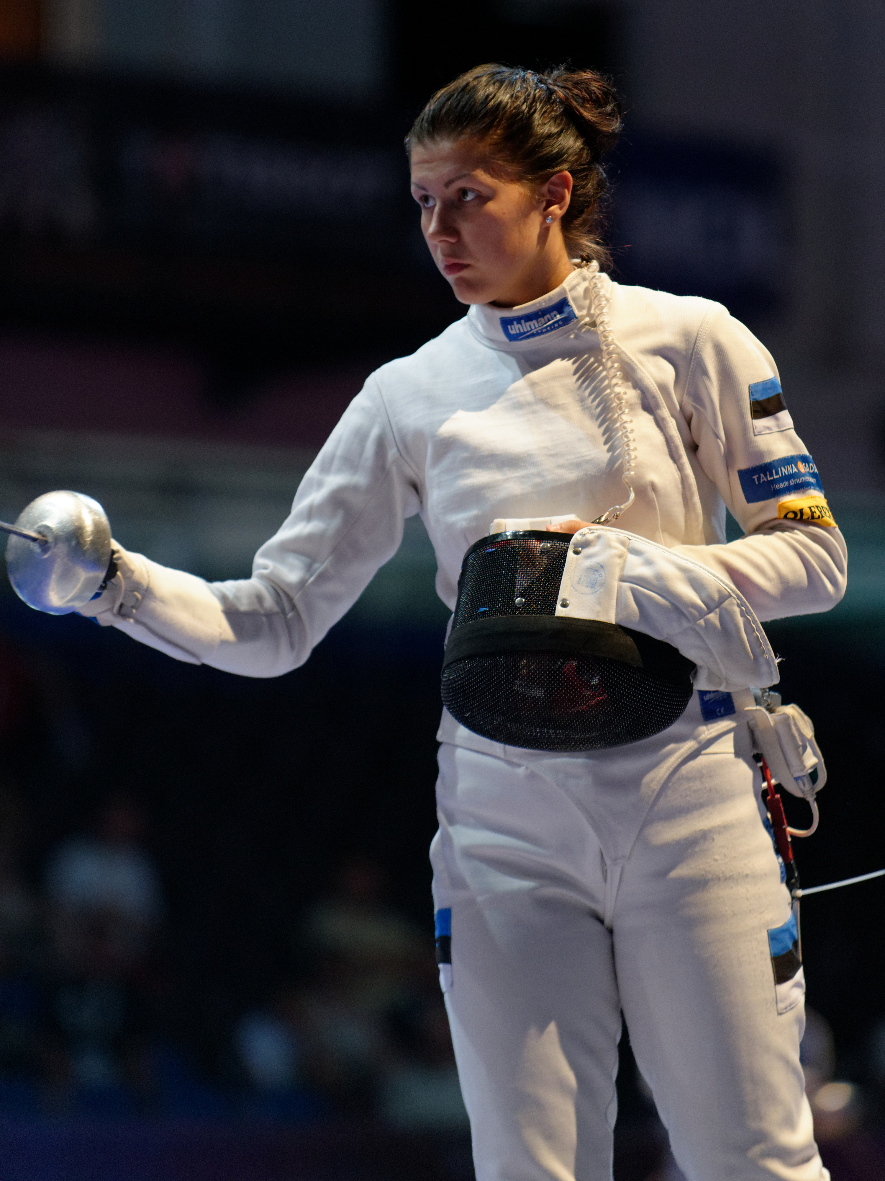 Estonia's Julia Beljajeva her bout against Tiffany Géroudet of Switzerland in the women's épée T32 at the 2013 World Fencing Championships 2013 at Syma Hall in Budapest, 8 August 2013.